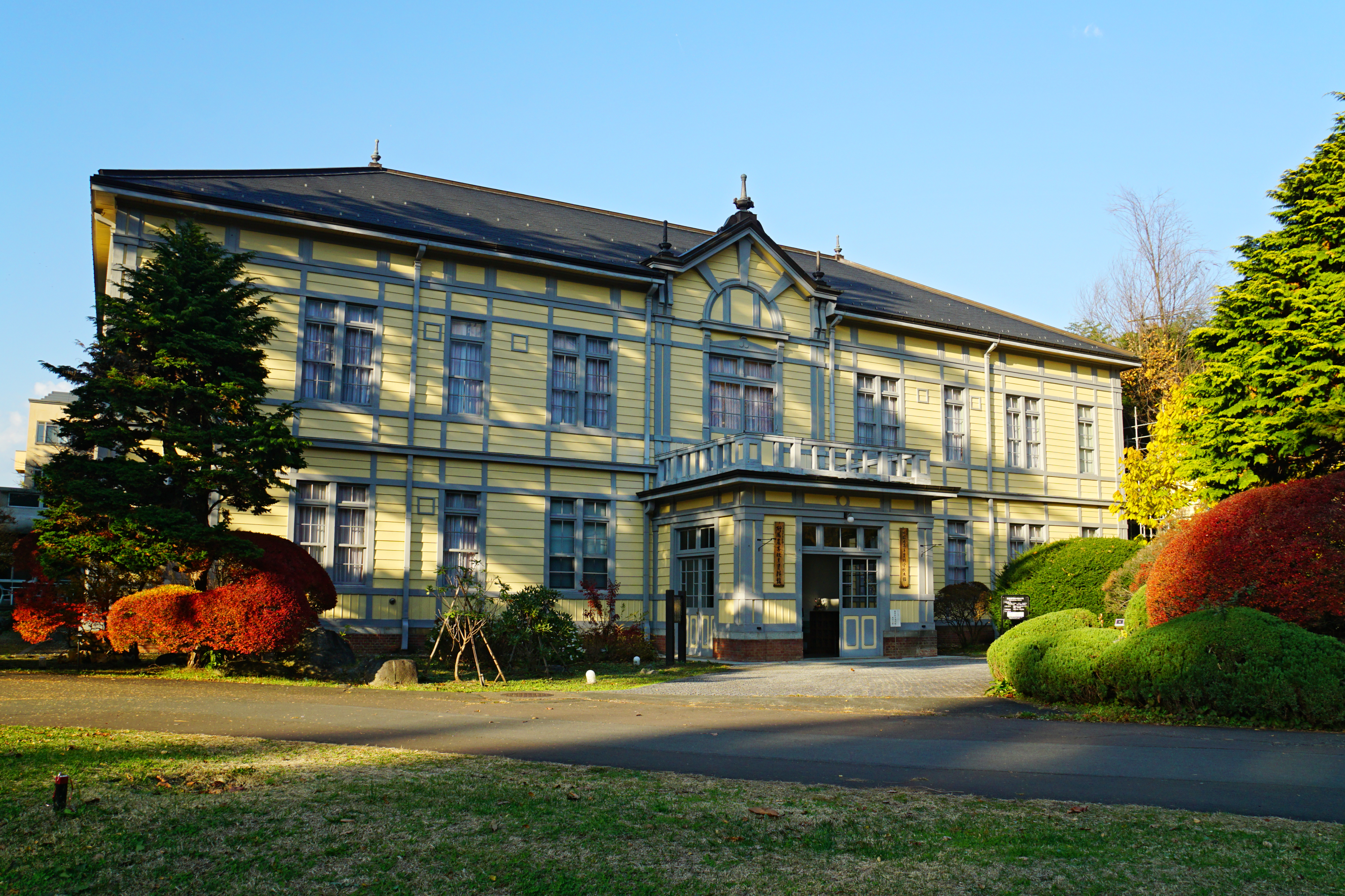 Iwate_University Historical_Museum_for_Agricultural_Education in Morioka, Iwate prefecture, Japan